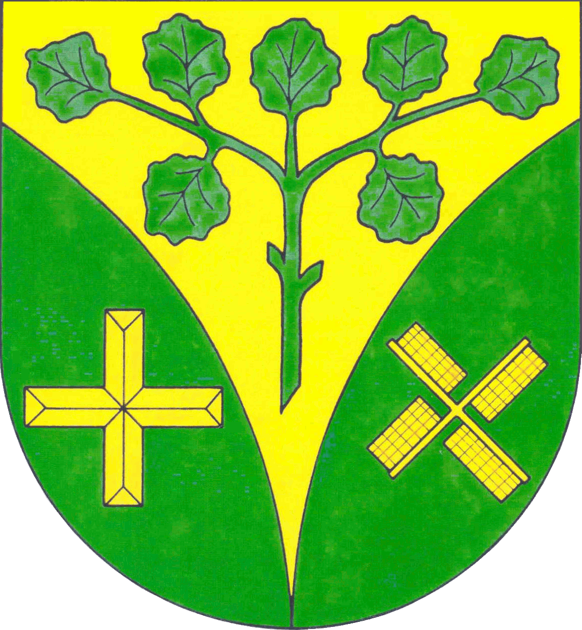 Coat of arms of the municipality Medelby in Schleswig-Holstein, Germany